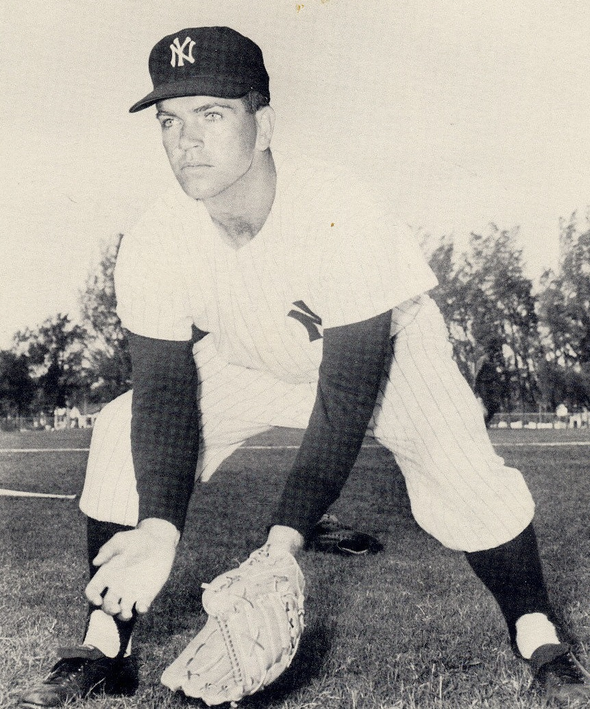 Bobby Richardson playing for the New York Yankees in 1963